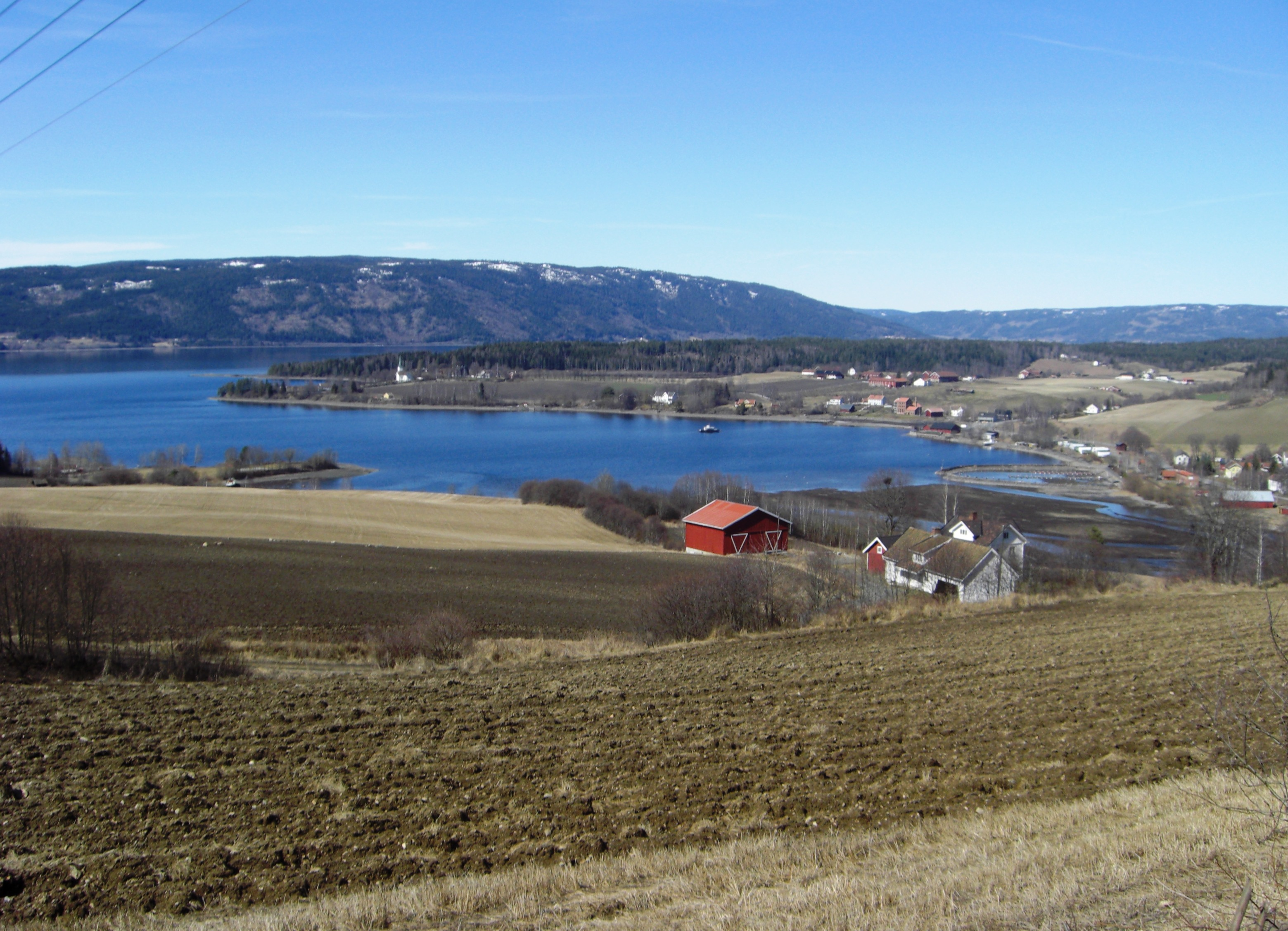 Røykenvik, Hadeland